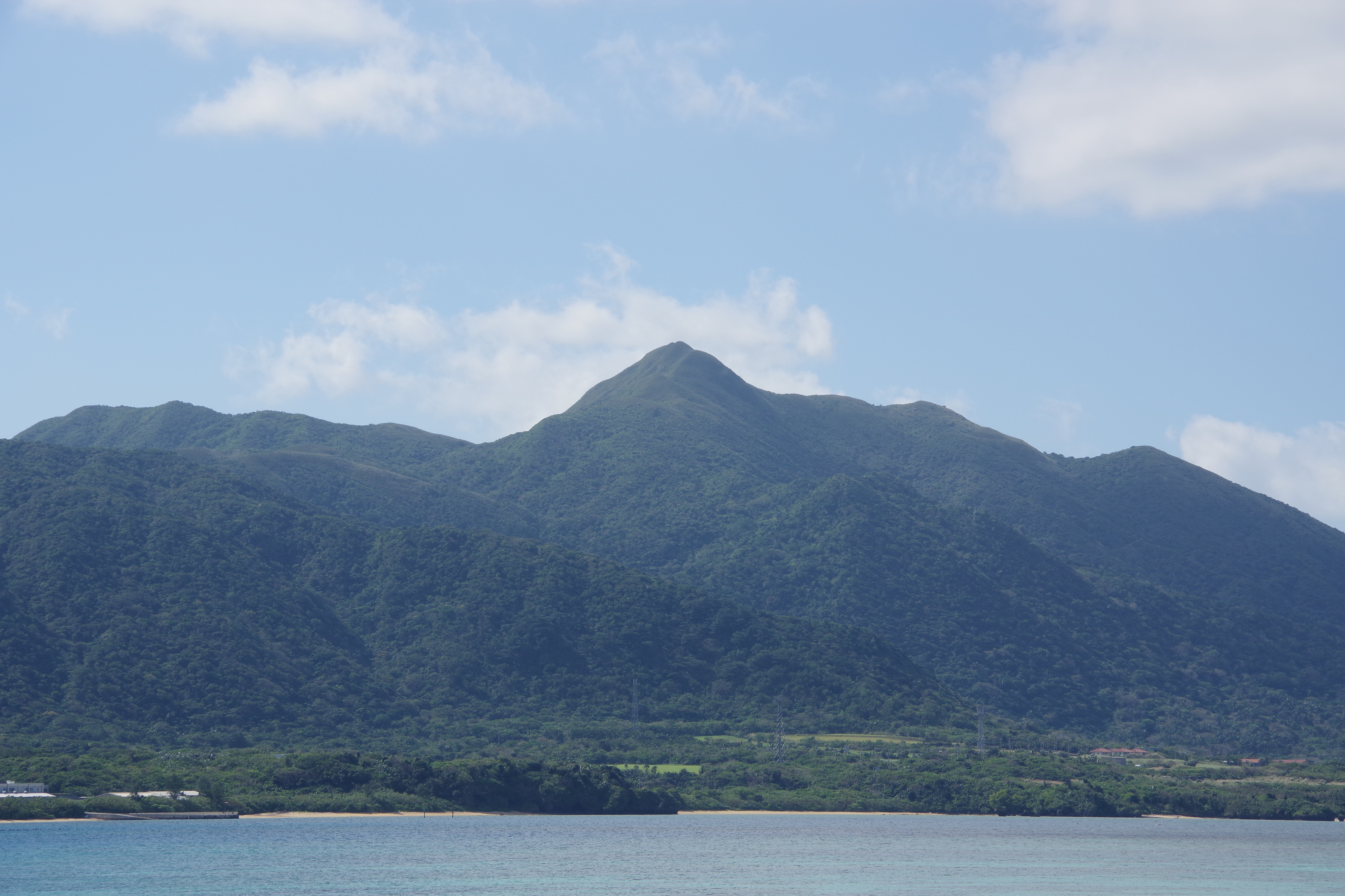 Mount Fukaiomoto seen from the Urasoko Bay, Ishigaki Island, Okinawa